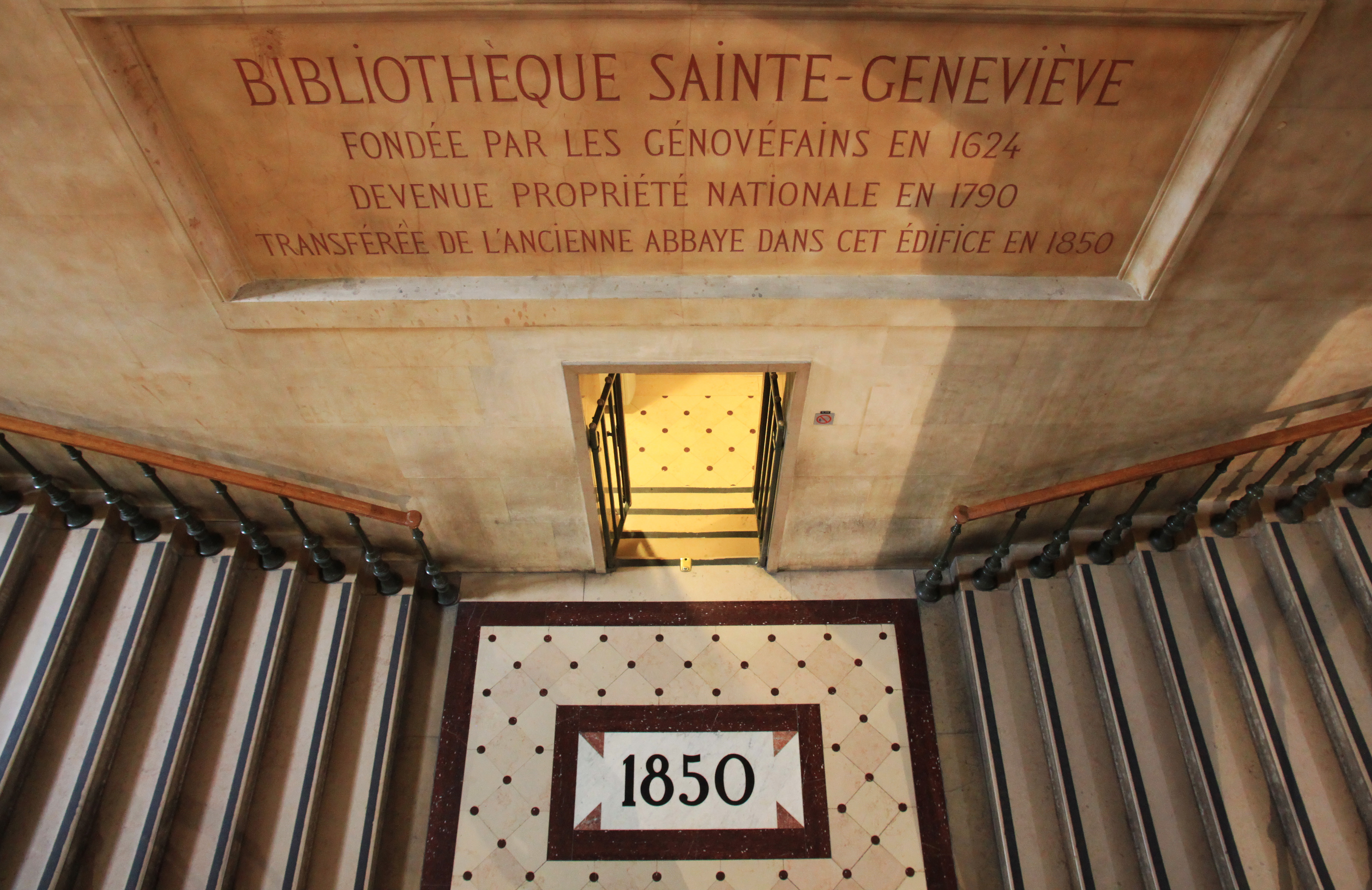 Main stairs landing of the Bibliothèque Sainte-Geneviève, Paris.